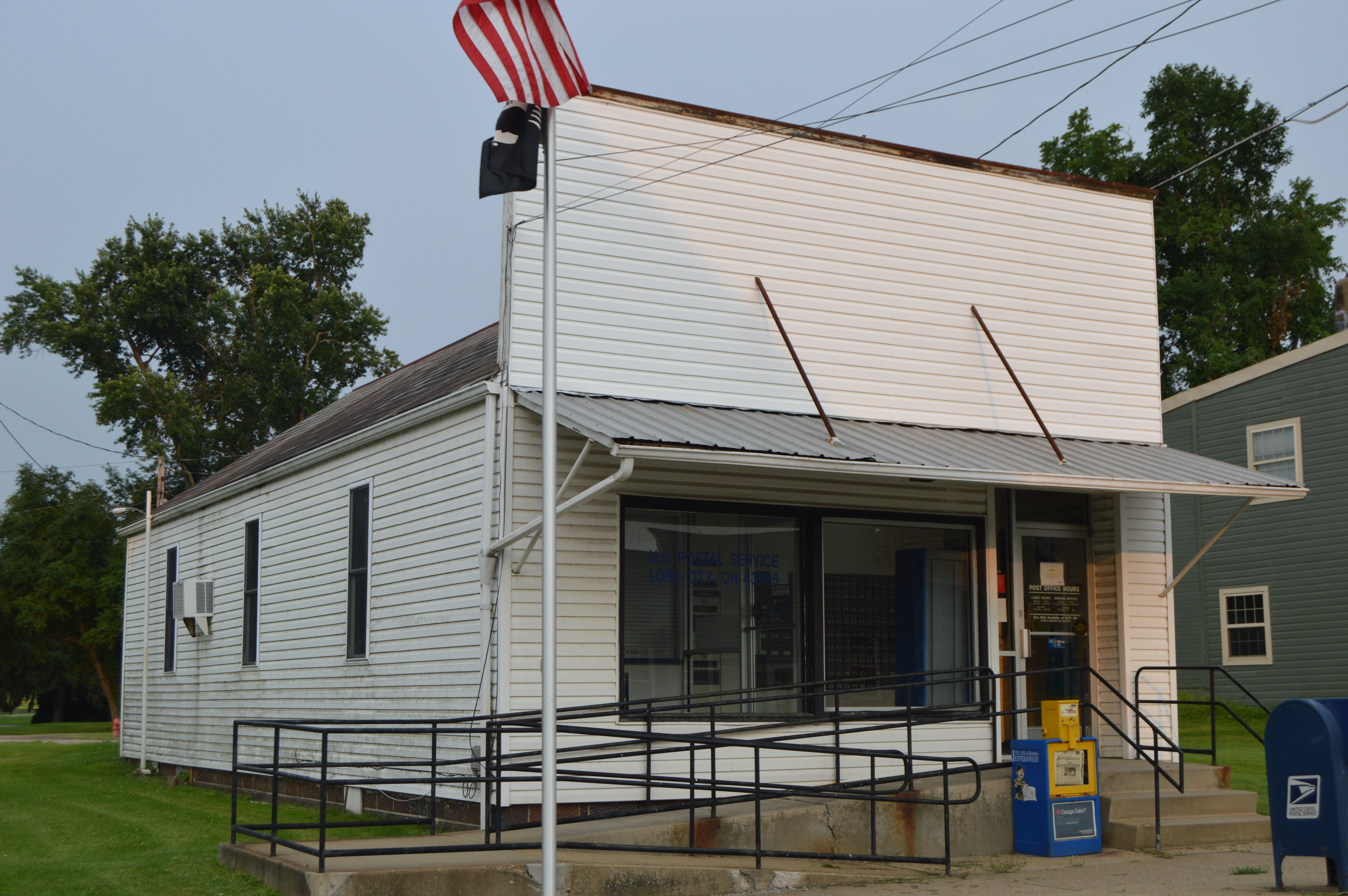 Front and northern side of the post office in Lore City, Ohio, United States, located at 200 Main Street (State Route 285).